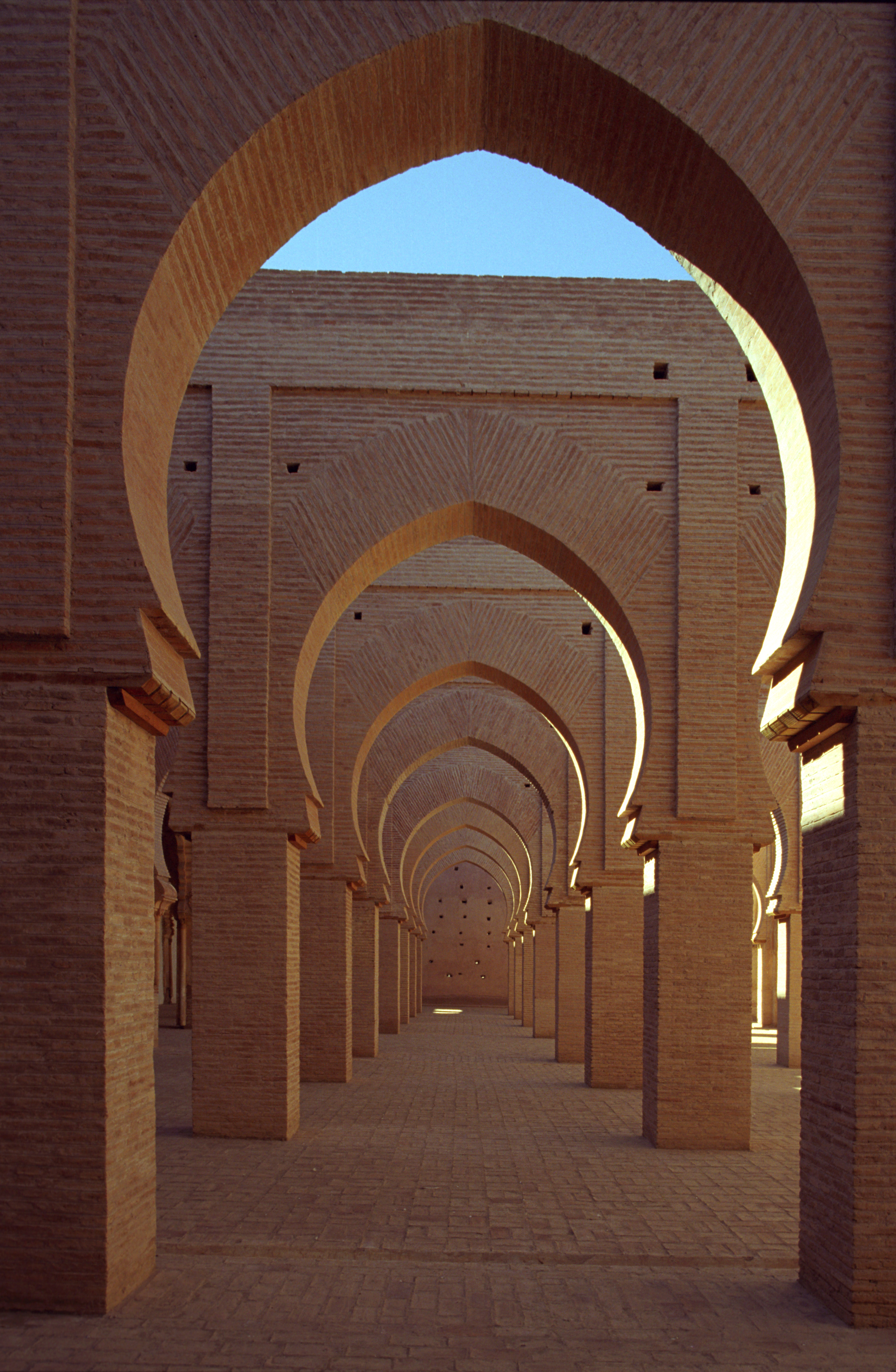 Morocco, mosque, High Atlas